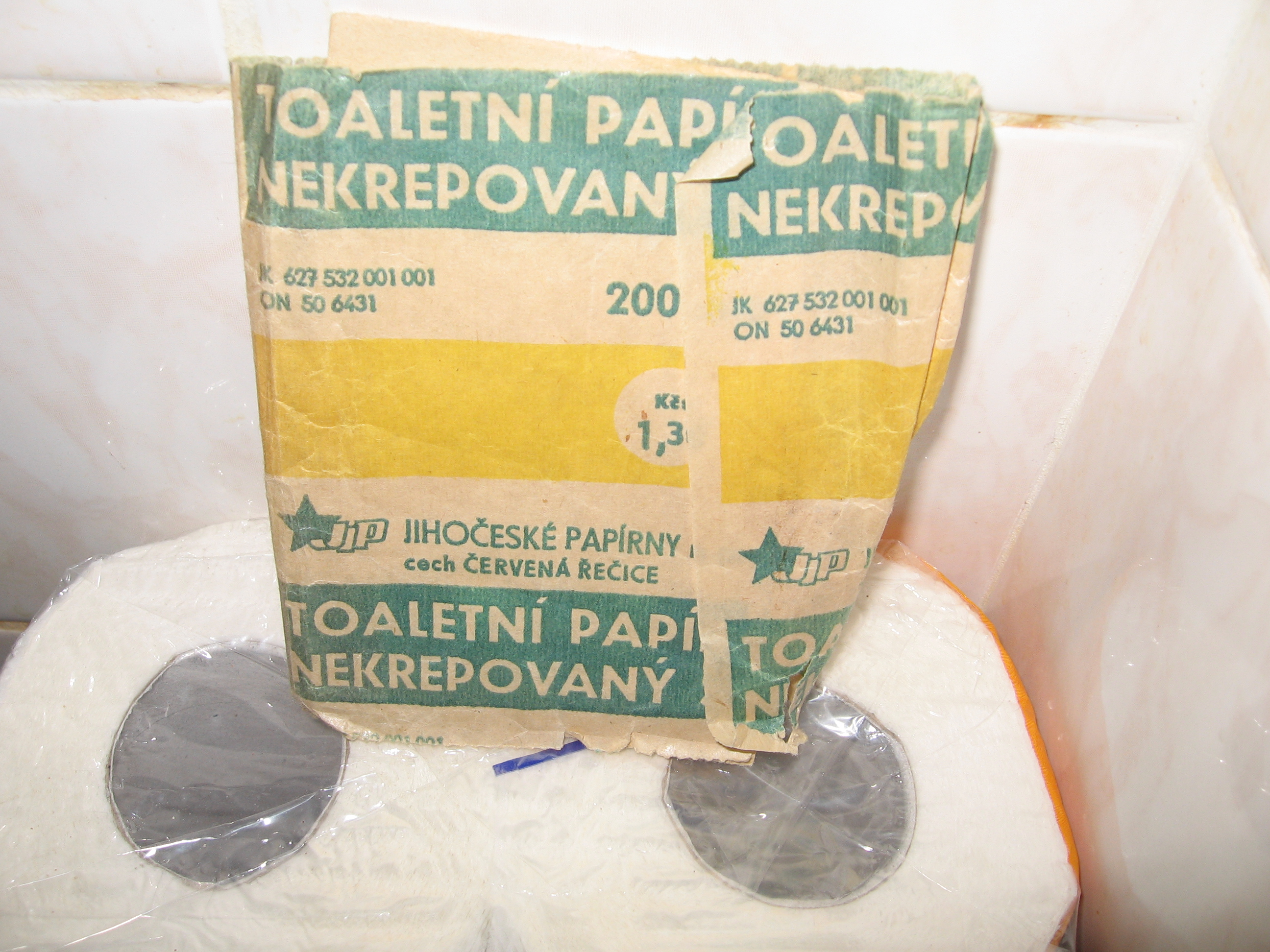 Folded toilet paper no crapy, Jihočeské papírny, probably 1980'.